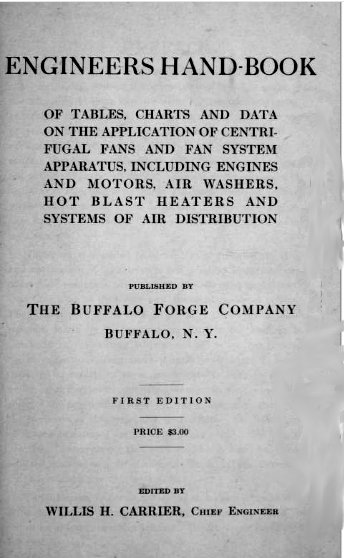 Frontispiece of the Engineers Hand-book, edited by Willis Carrier while at the Buffalo Forge Company. Edited by the uploader, lightened, converted to greyscale and removed the name of the company that ran along the right side of the image.